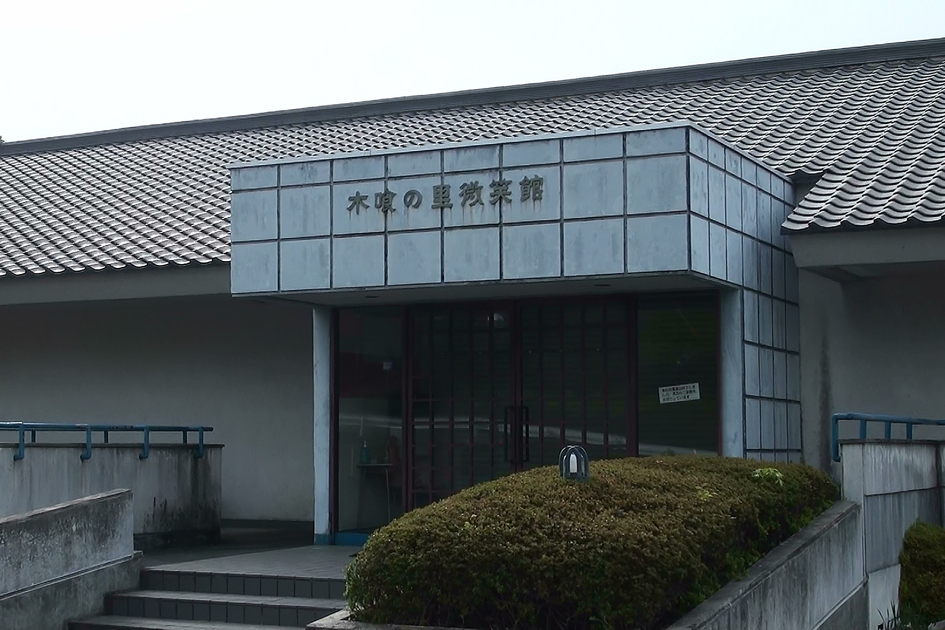 The art museum of the sculptor Mokujiki